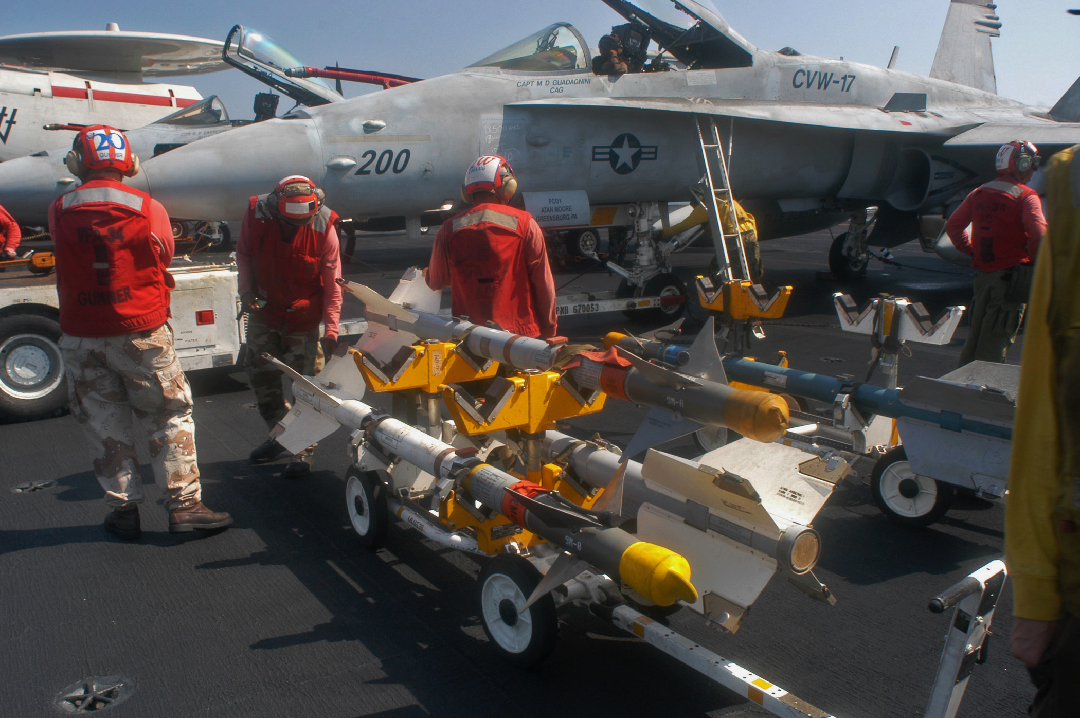 Arabian Gulf - Aviation Ordnanceman prepare to load a skid of AIM-9 Sidewinder air-to-air missiles on an F/A-18 Hornet assigned to the “Blue Blasters” of Strike Fighter Squadron Three Four (VFA-34) aboard USS John F Kennedy (CV 67).